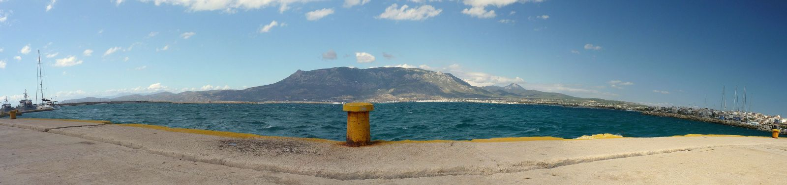 Port of Corinth